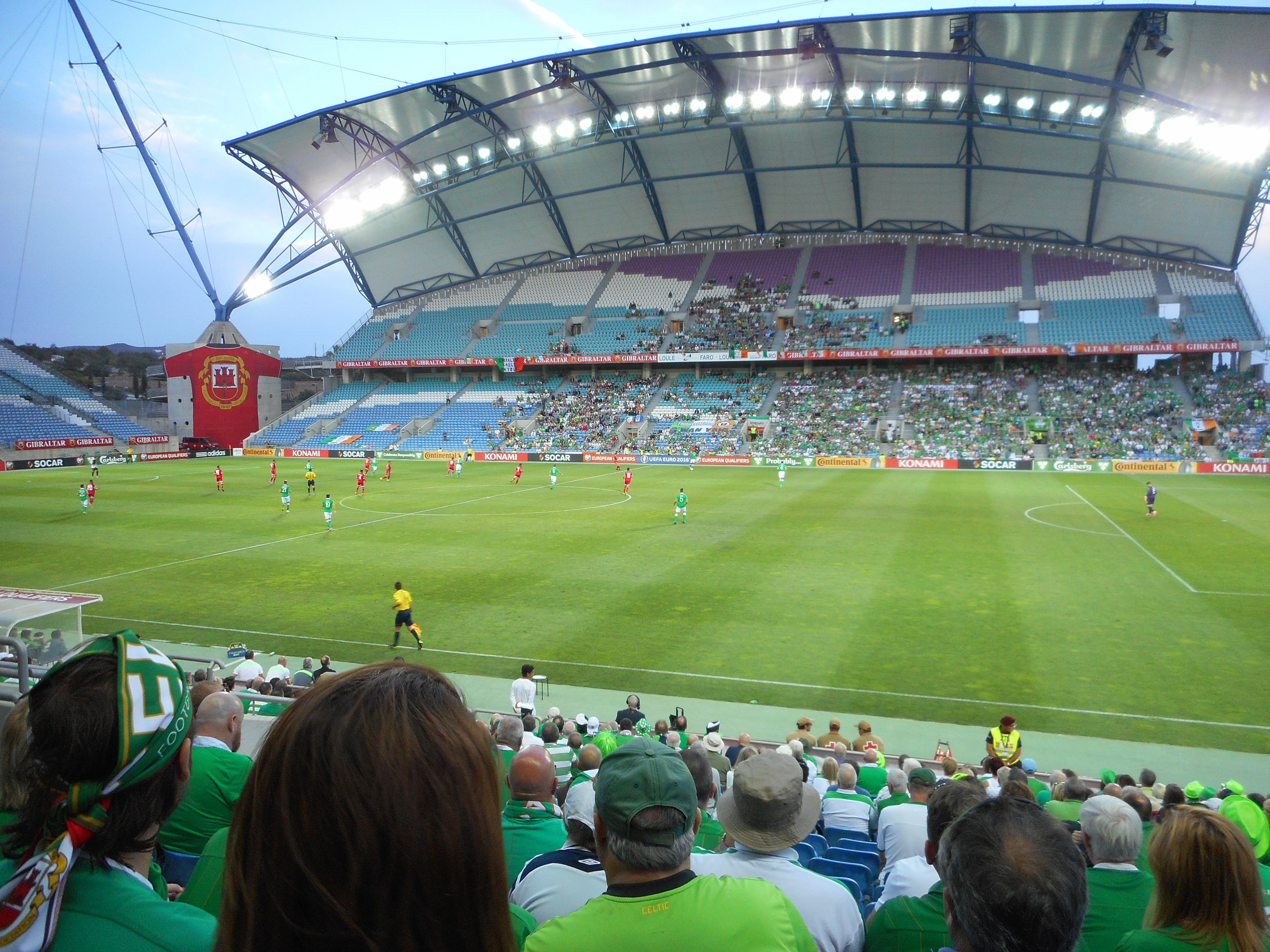 Gibralter playing the Republic of Ireland in the UEFA Euro Championship 2016 qualifier played on the 4 September 2015 at the Estádio do Algarve, near Almancil, Algarve, Portugal. Final score was 0-4 to Ireland